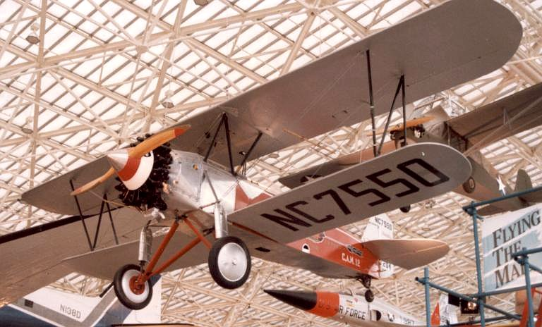 Stearman C3B three-seat biplane of 1927 in Western Air Express markings in the Aviation Museum at Boeing Field, Seattle